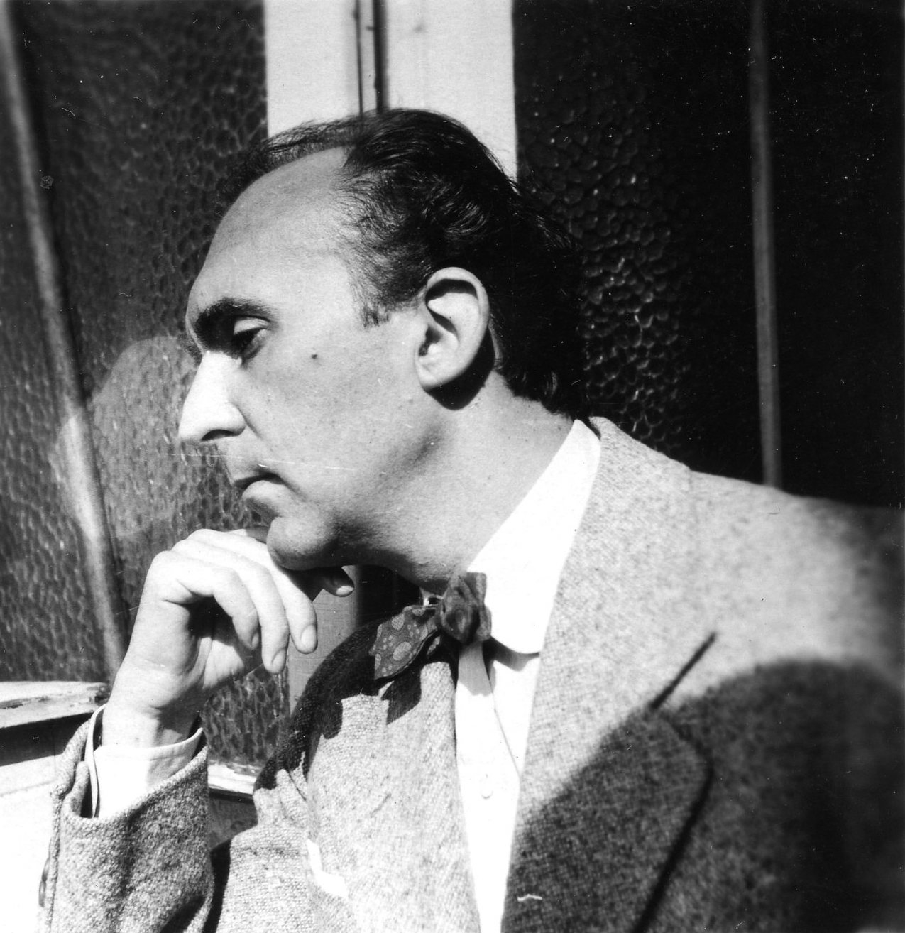 Photo of Jaroslav Otrubova